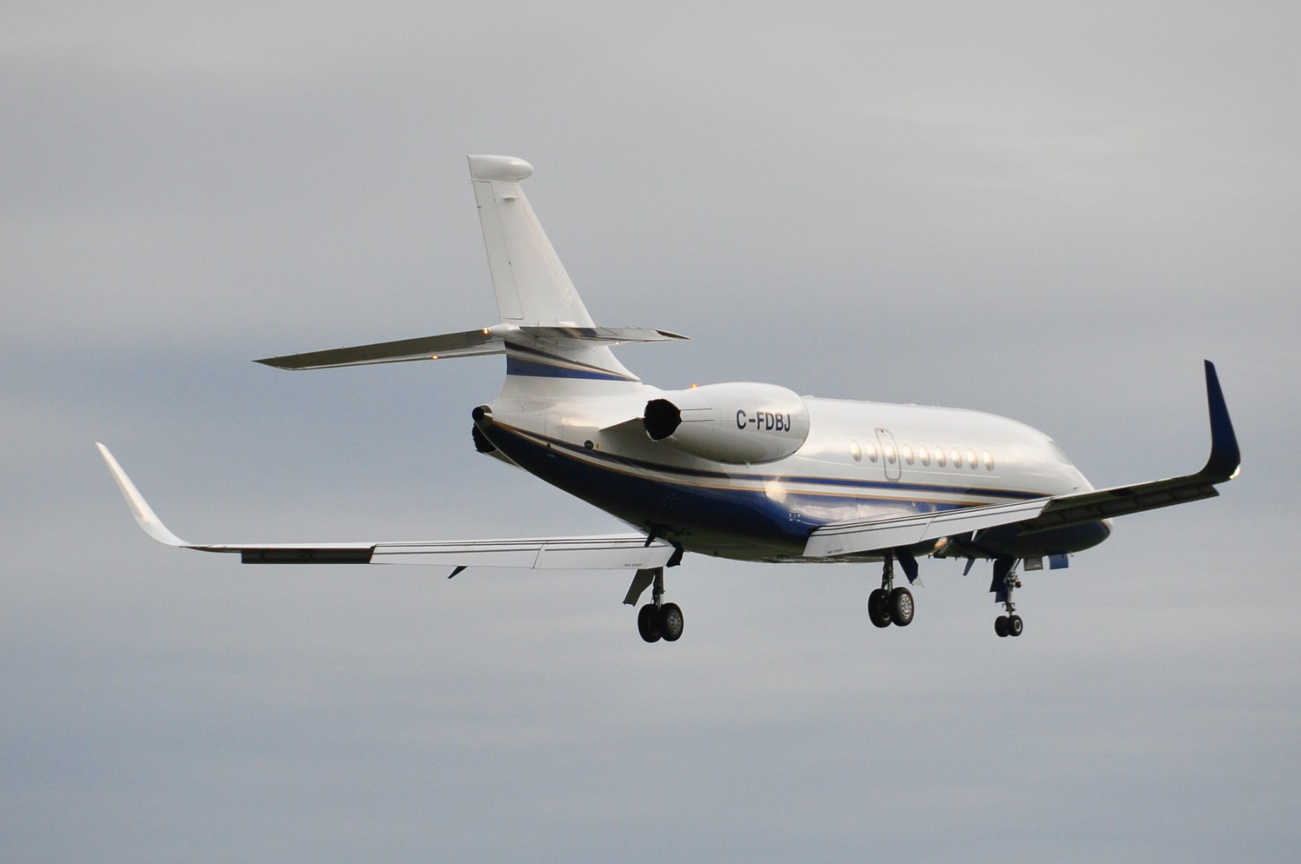 Dassault Falcon 2000EX C-FDBJ of Starlink Aviation in Montréal-Pierre Elliott Trudeau International Airport, Canada (August 2011).